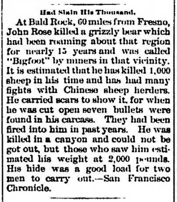 newspaper clipping describing a 19th century grizzly bear named "Bigfoot".